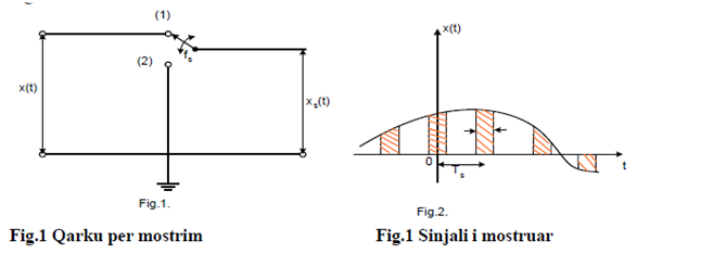 Mostrimi